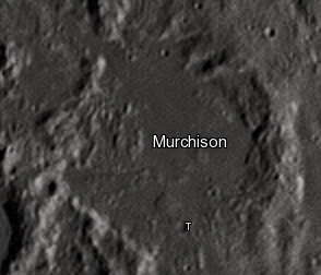 Murchison lunar crater as seen from Earth with satellite craters labeled